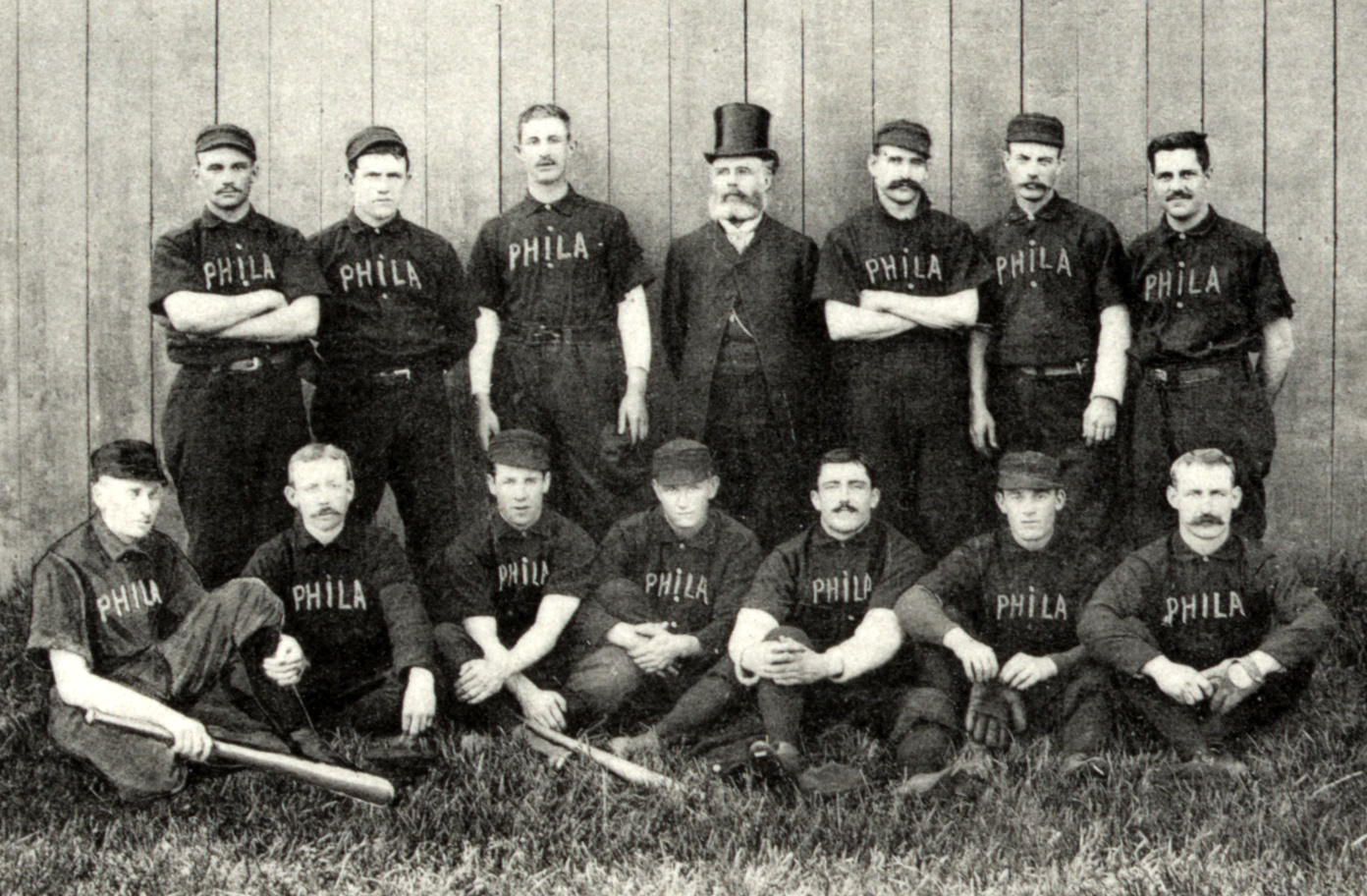 1888 Phiadelphia Quakers team photo